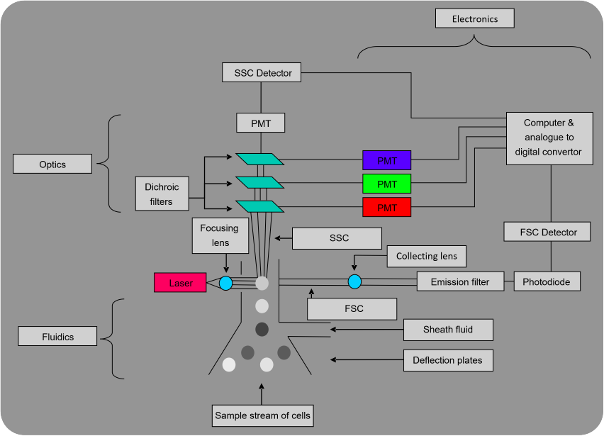 The basic components of a flow cytometer